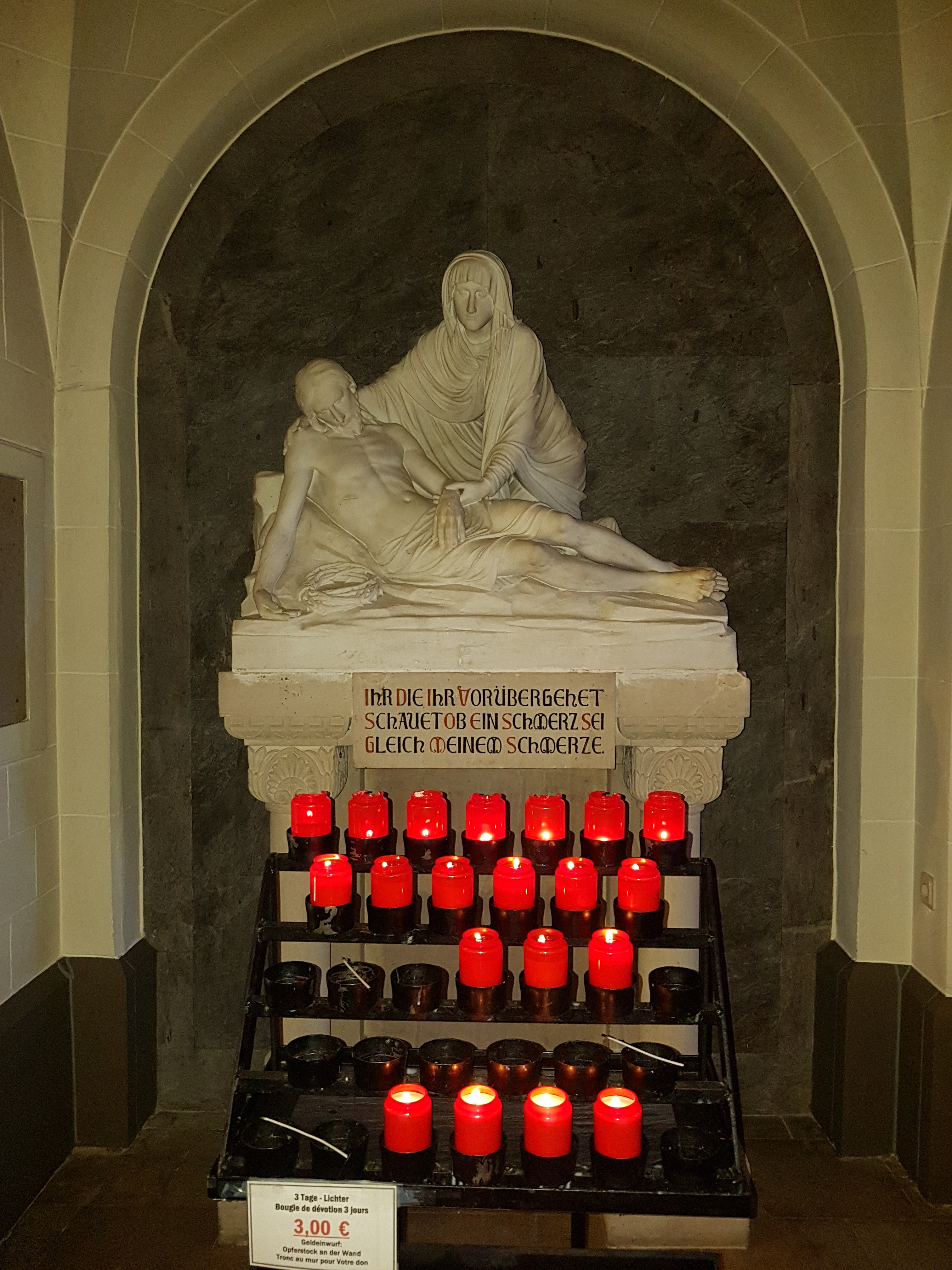 Interior of the Roman Catholic Church in Clervaux (also: Church of St. Cosmas and Damian, lux .: Kierch zu Klierf; french: Église Saints-Côme-et-Damien, german: Kirche in Clerf or Kirche St. Cosmas und Damian) in the Montée de l'église (street) in the municipality of Clervaux' (lux.: Klierf